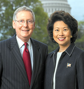 Mitch McConnell and Elaine Chao pose for a picture.